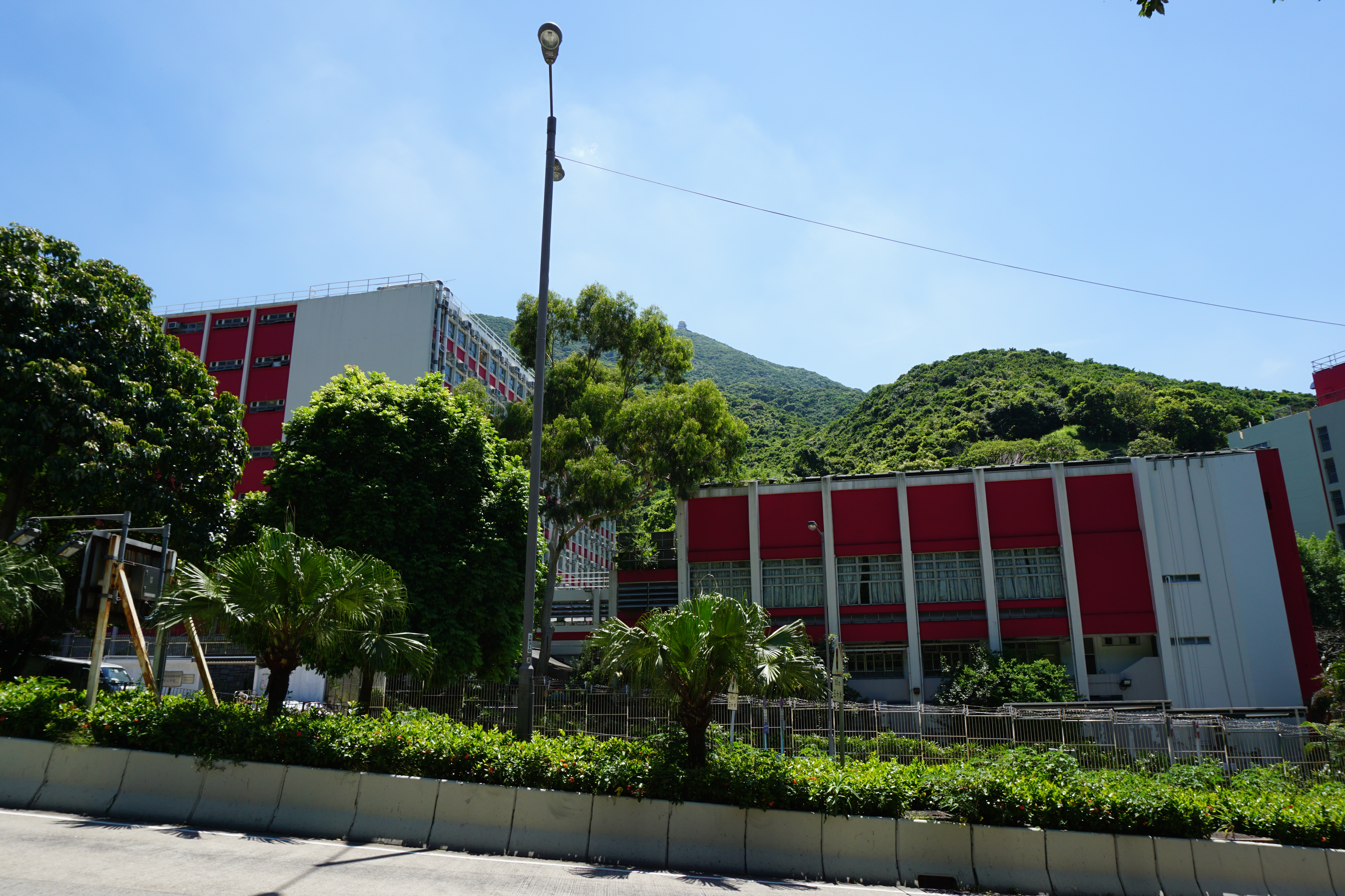 Shau Kei Wan East Government Secondary School in Shau Kei Wan, Hong Kong.